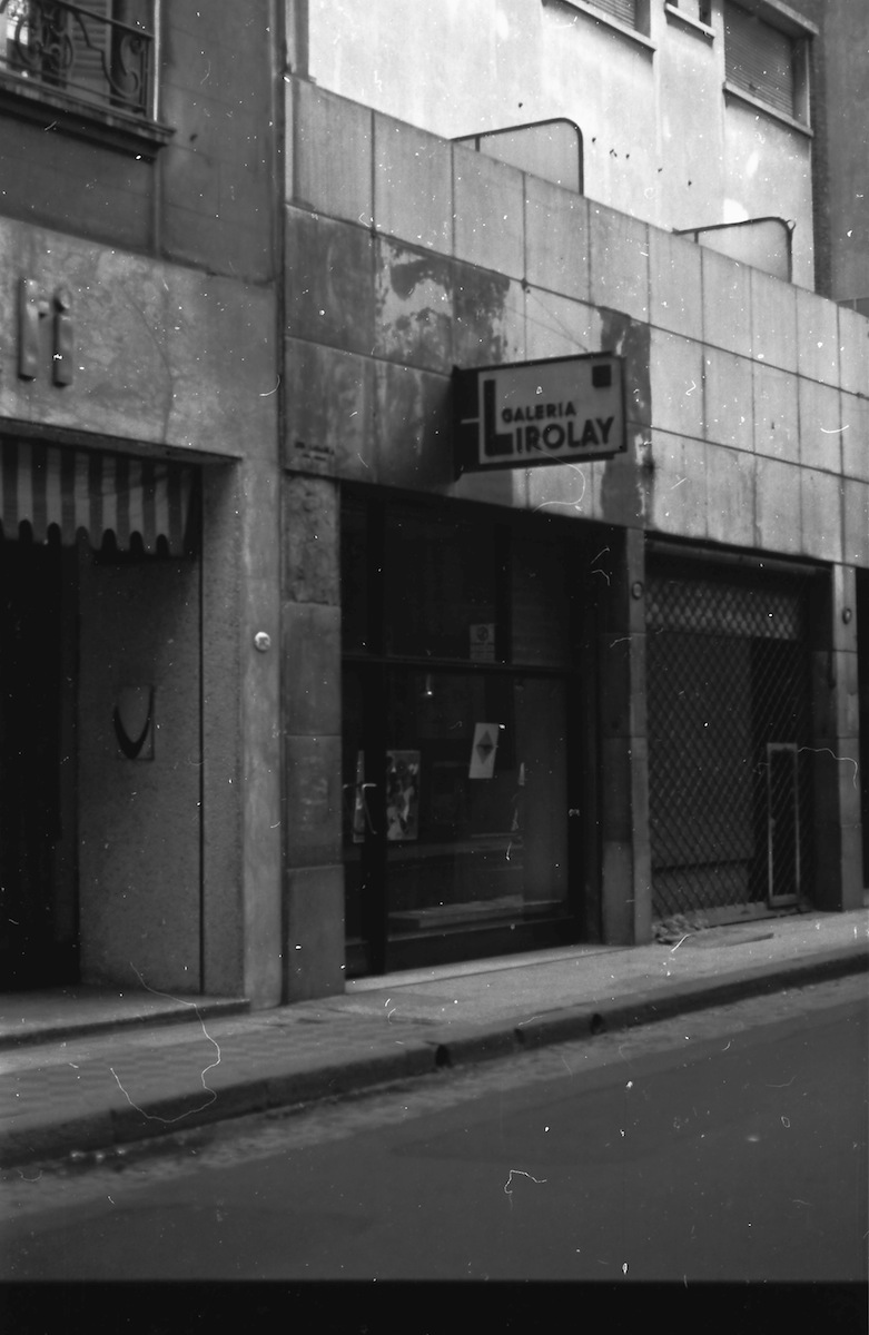 Lirolay Art Gallery. Photo taken by Roberto Lucio Pignataro in 1968